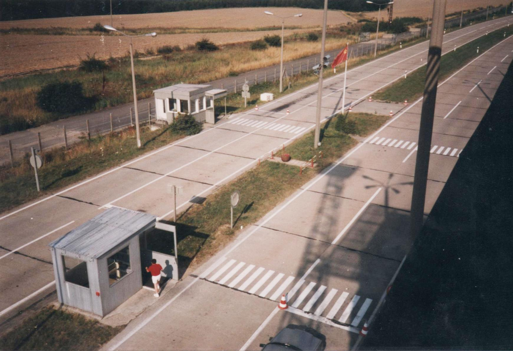 Soviet checkpoint in Marienborn in May 1990